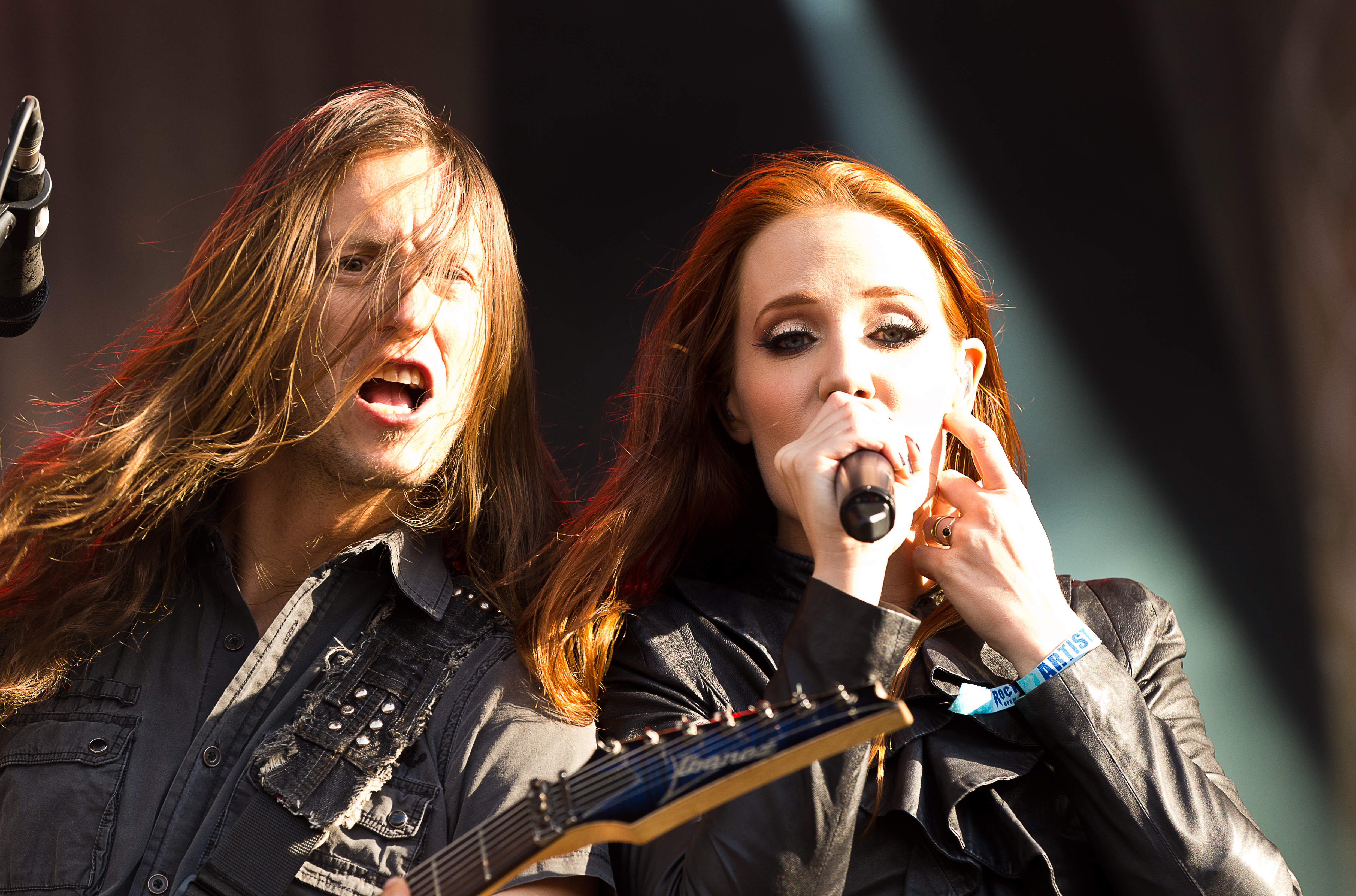 The Dutch symphonic metal band Epica at the Rockharz Open Air 2015 in Ballenstedt/Germany.